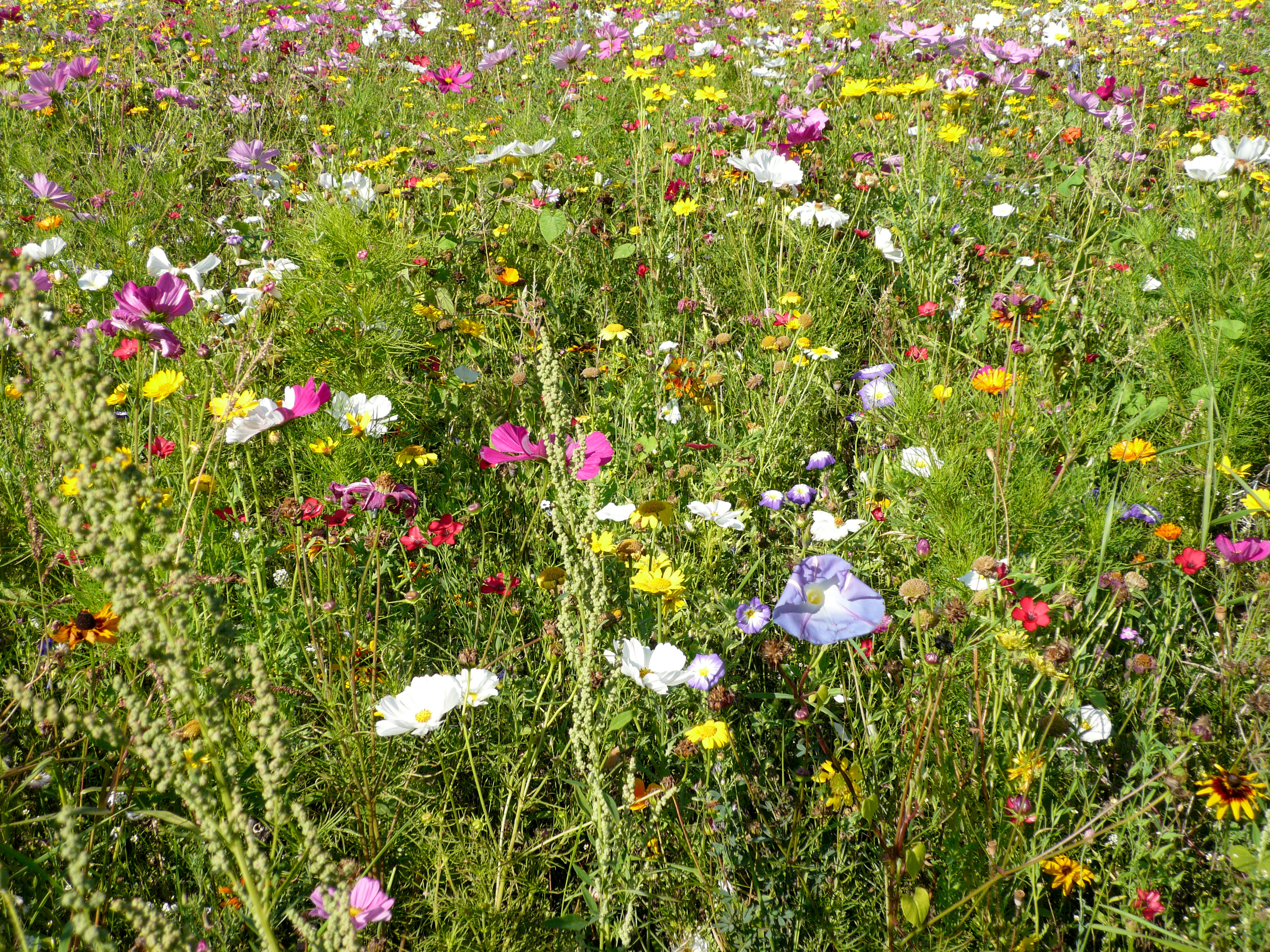 Flowers on a meadow